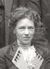 Beatrice Moses Hinkle (1874–1953) was a pioneering American feminist, psychoanalyst, writer, and translator. This crop of a larger image is from 1911. It is not the highest resolution, but provided for historical reasons.